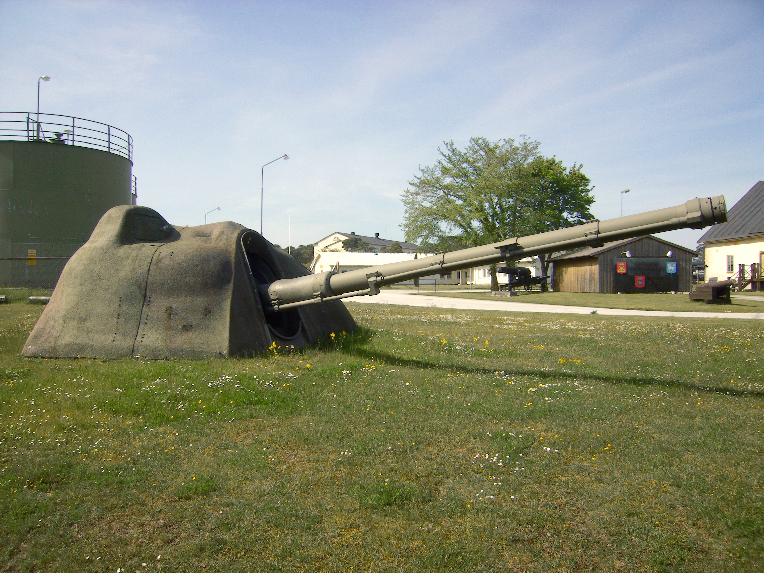 A Swedish naval artillery called 12 cm tornautomatpjäs m/70 (ERSTA) at a museum in Fårösund, Gotland, Sweden.